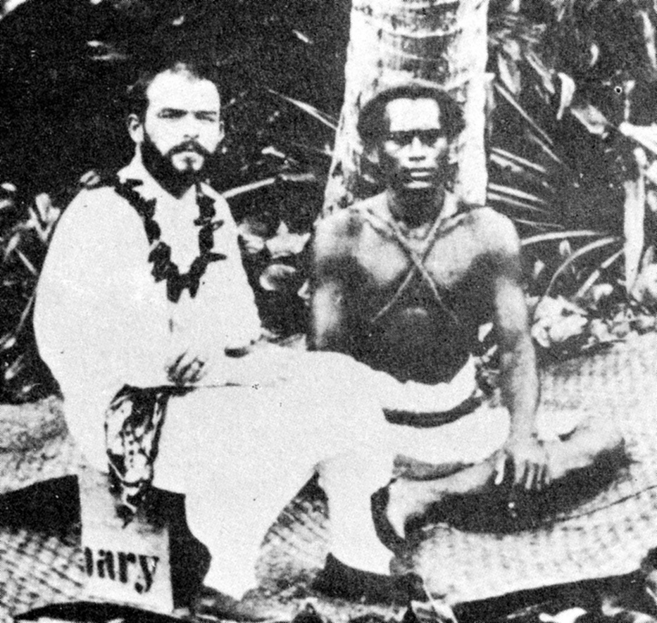 The First Trip of Jan Kubary to Oceania